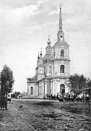 Благовещенский собор в Рославле. Дореволюционное фото